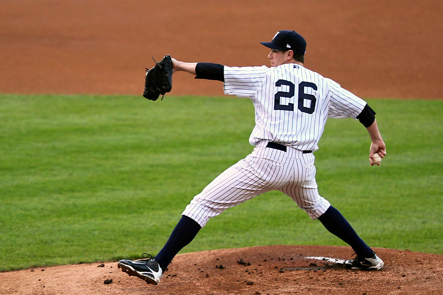 Dustin Moseley, April 30, 2010. Scranton, PA.